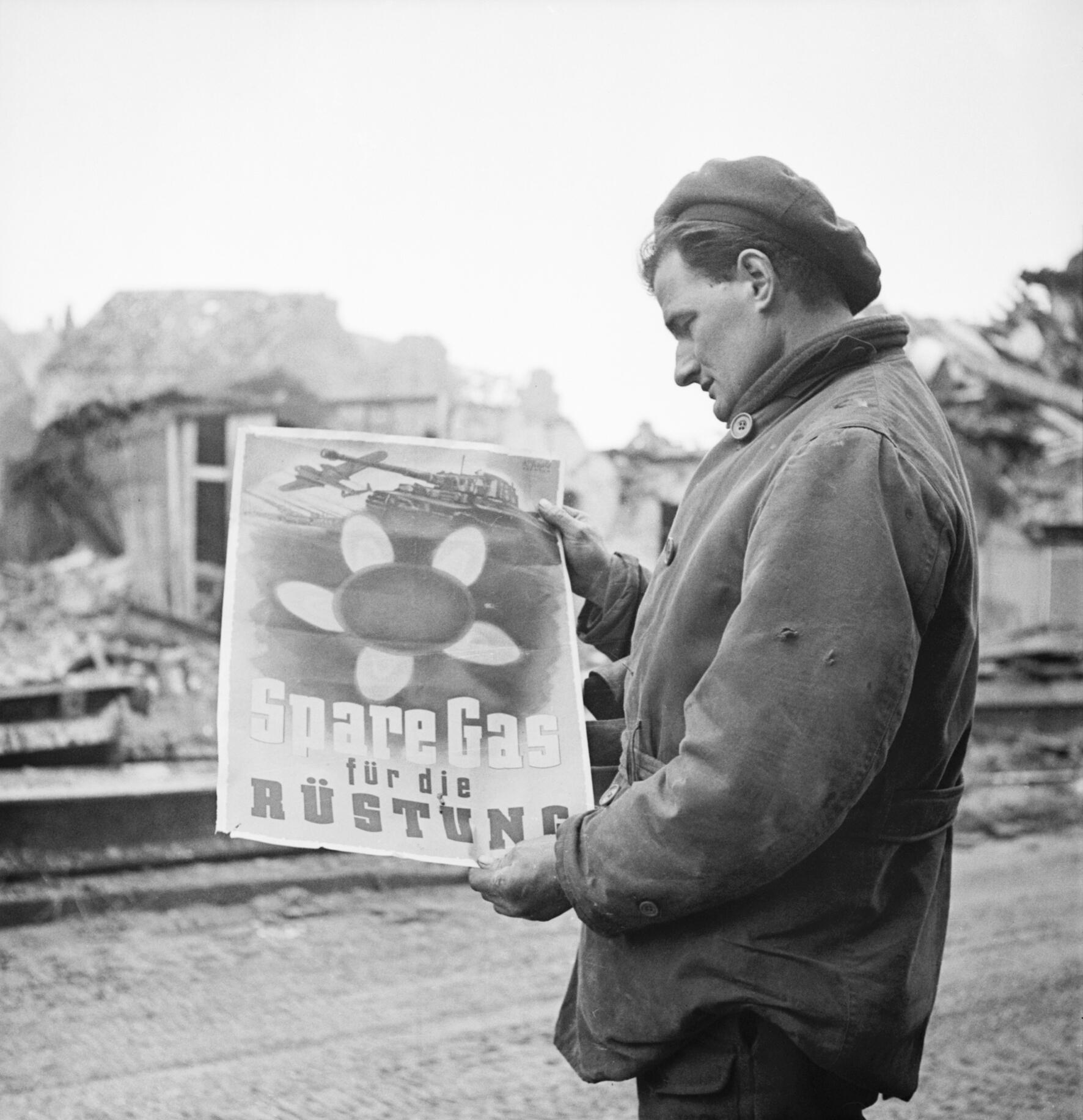 A soldier standing in the ruins of Kleve, reading a German poster calling for civilians to conserve fuel supplies for the war effort.